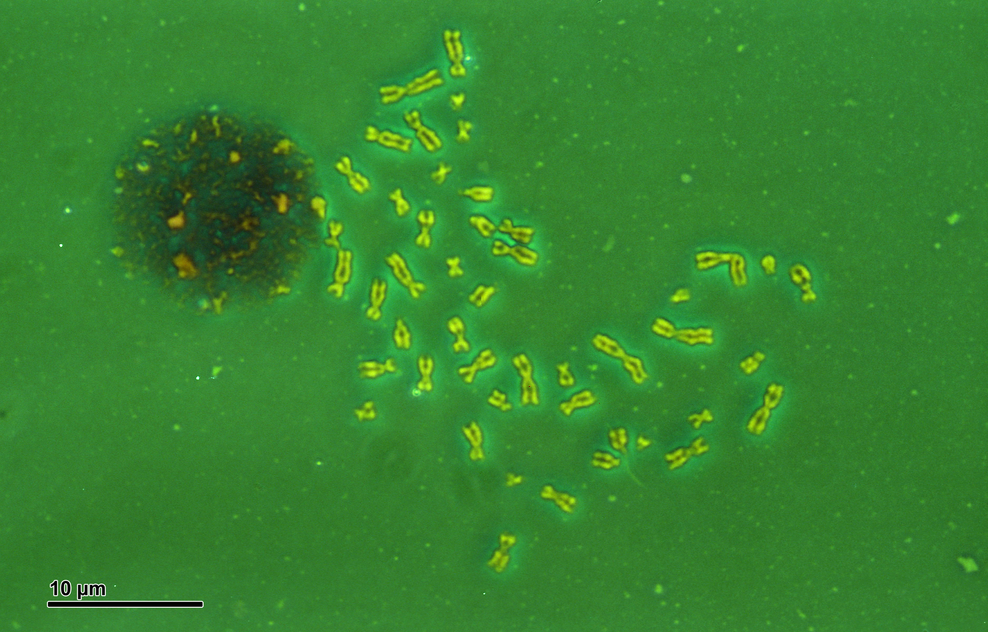 Human karyotype: Karyotype Human 47,XXY (Klinefelter syndrome). Optical microscopy technique: Negative phase contrast. Magnification: 4000x (for picture width 26 cm ~ A4 format).